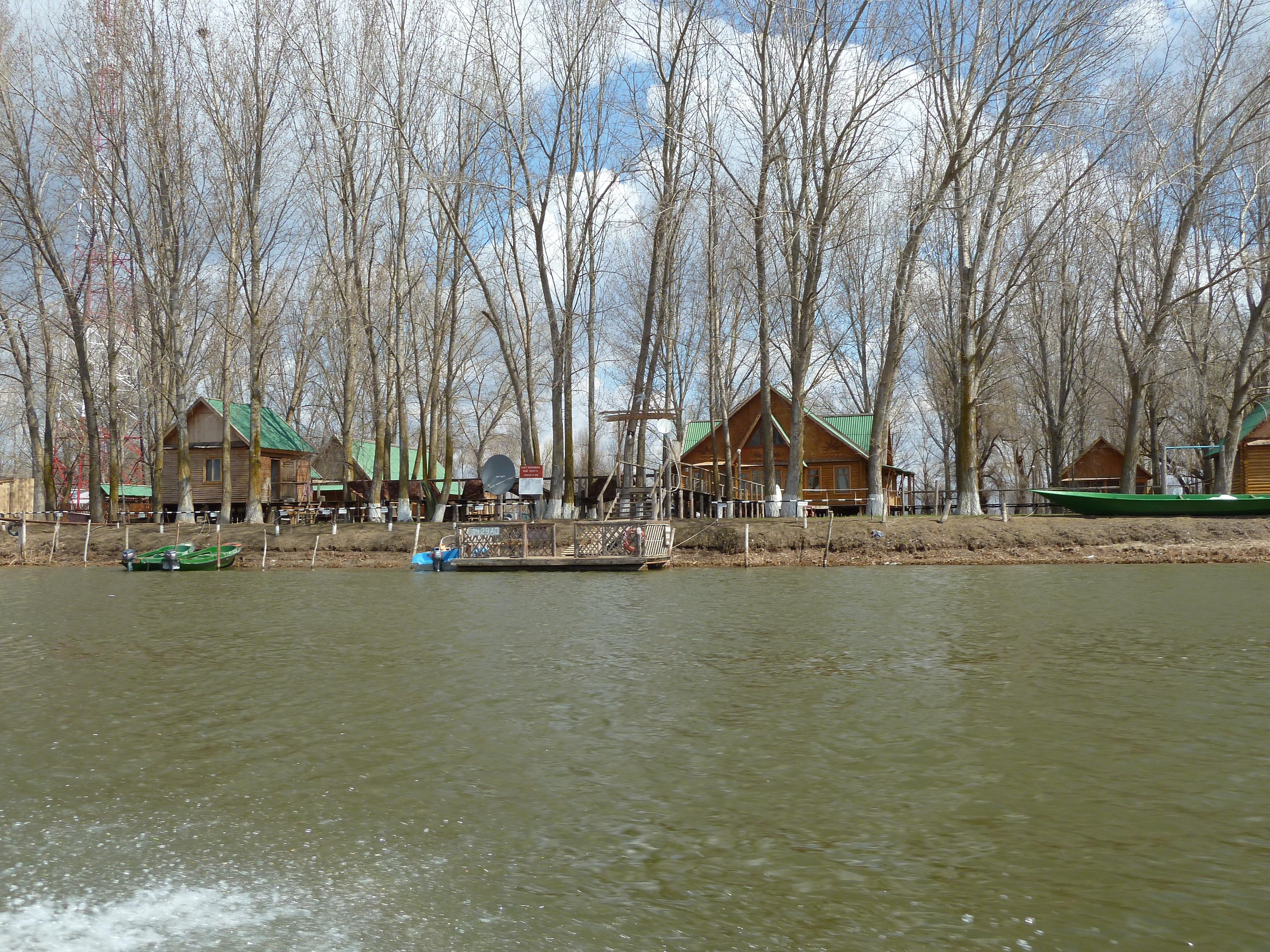 Волга Кировский район Астрахань